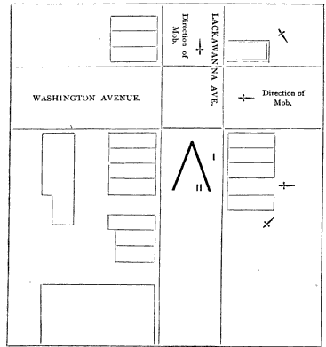 Position of the Citizens' Corps relative to the mob when the attack began